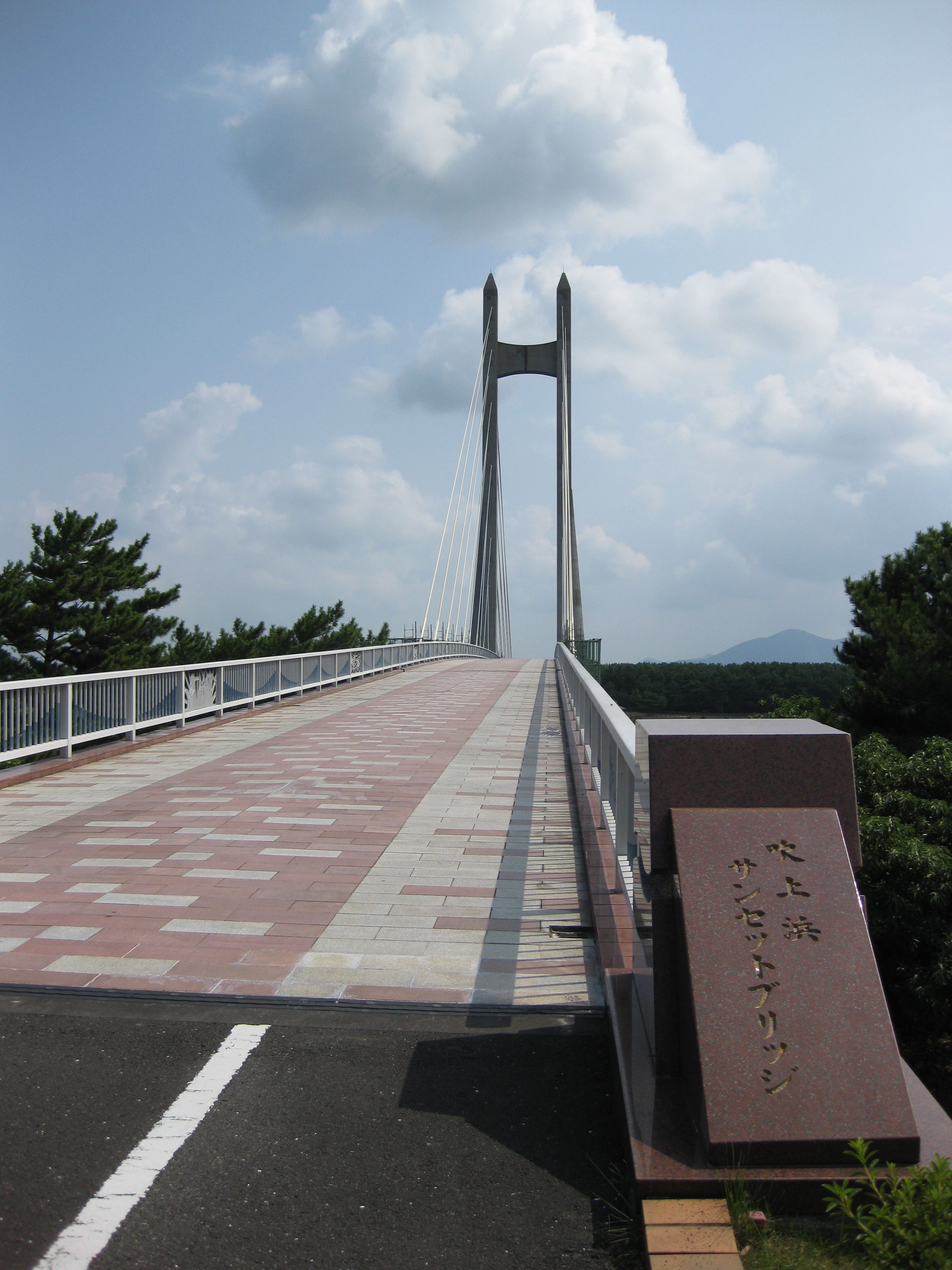 Fukiagehama Sunset Bridge in Minamisatsuma City, Kagoshima Prefecture, Japan